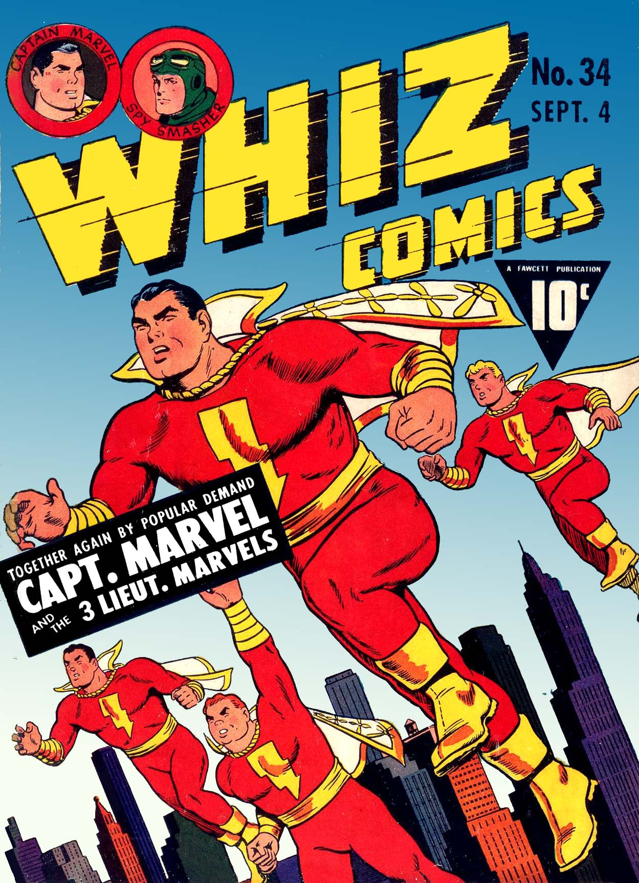 "Together again by popular demand." Captain Marvel and his Three Lieutenants take to the skies on the cover of Whiz Comics number 34 (September, 1942). Debuting in 1941, the Three Lieutenant Marvels would make recurring appearances until the end of the decade.